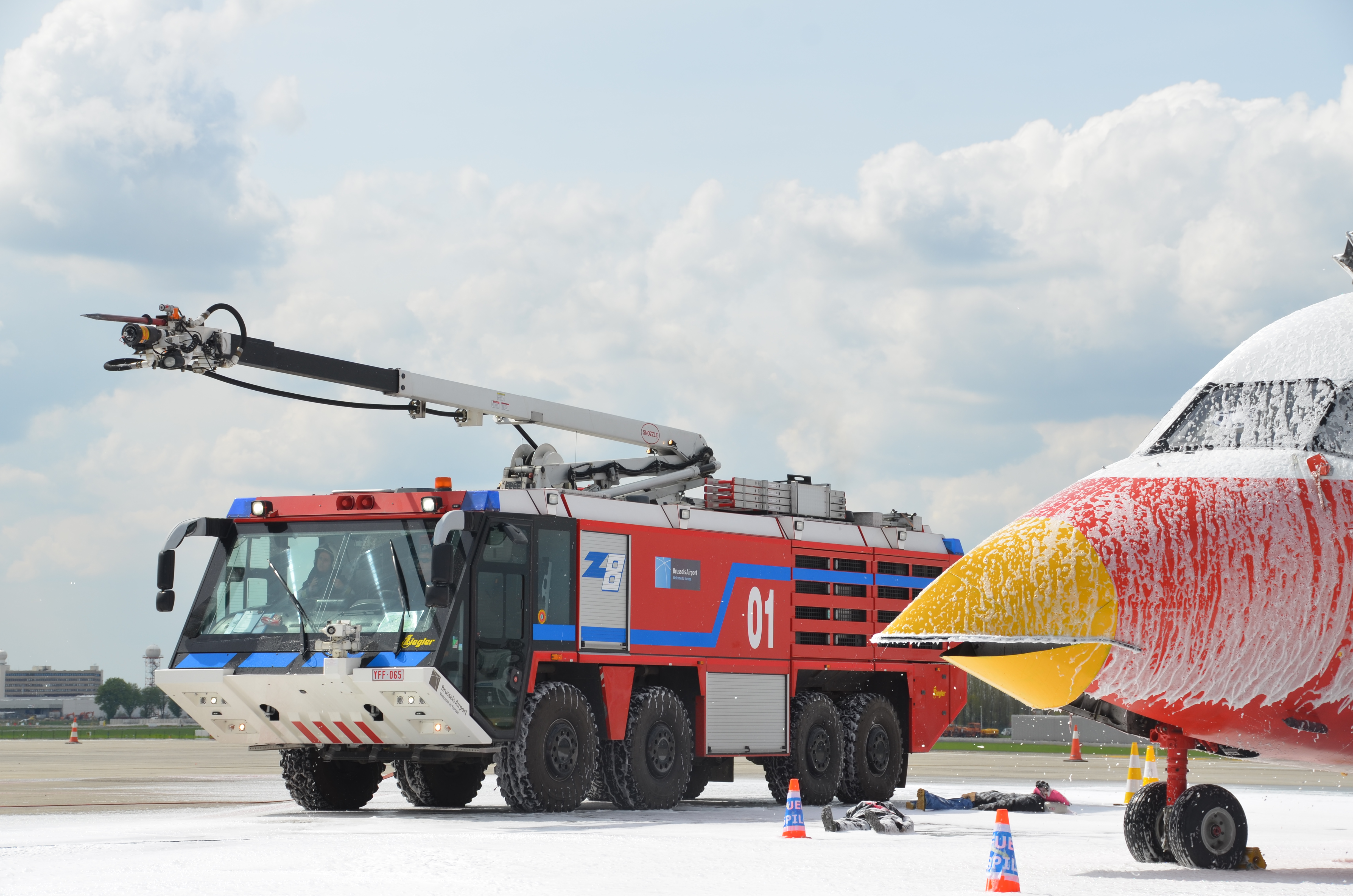 Saturday, 27th of April, we organized a large-scale emergency drill at Brussels Airport to test and evaluate the preparedness of our airport emergency services in the event of an incident. Read more on